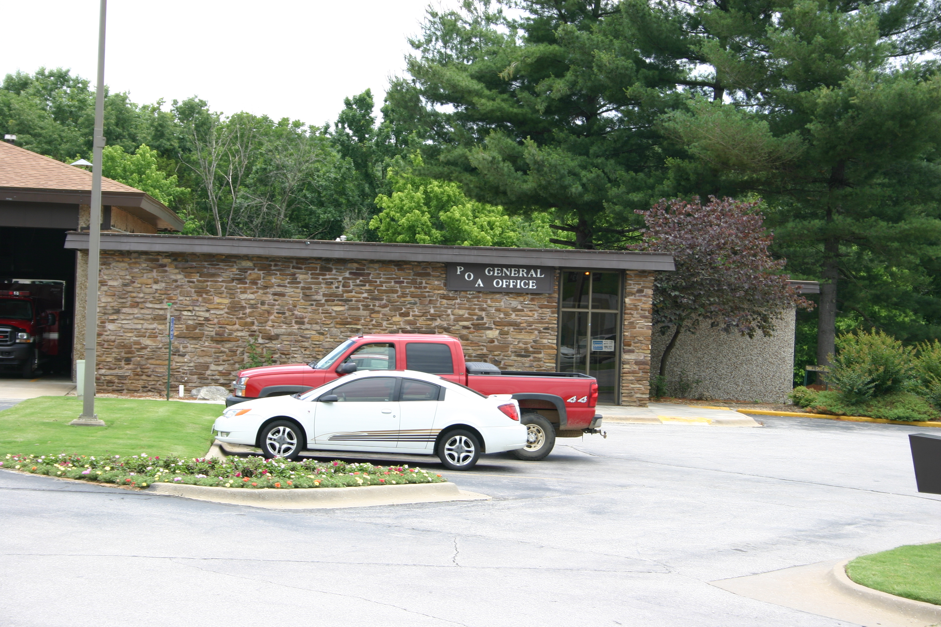 Author: Michael Krewson